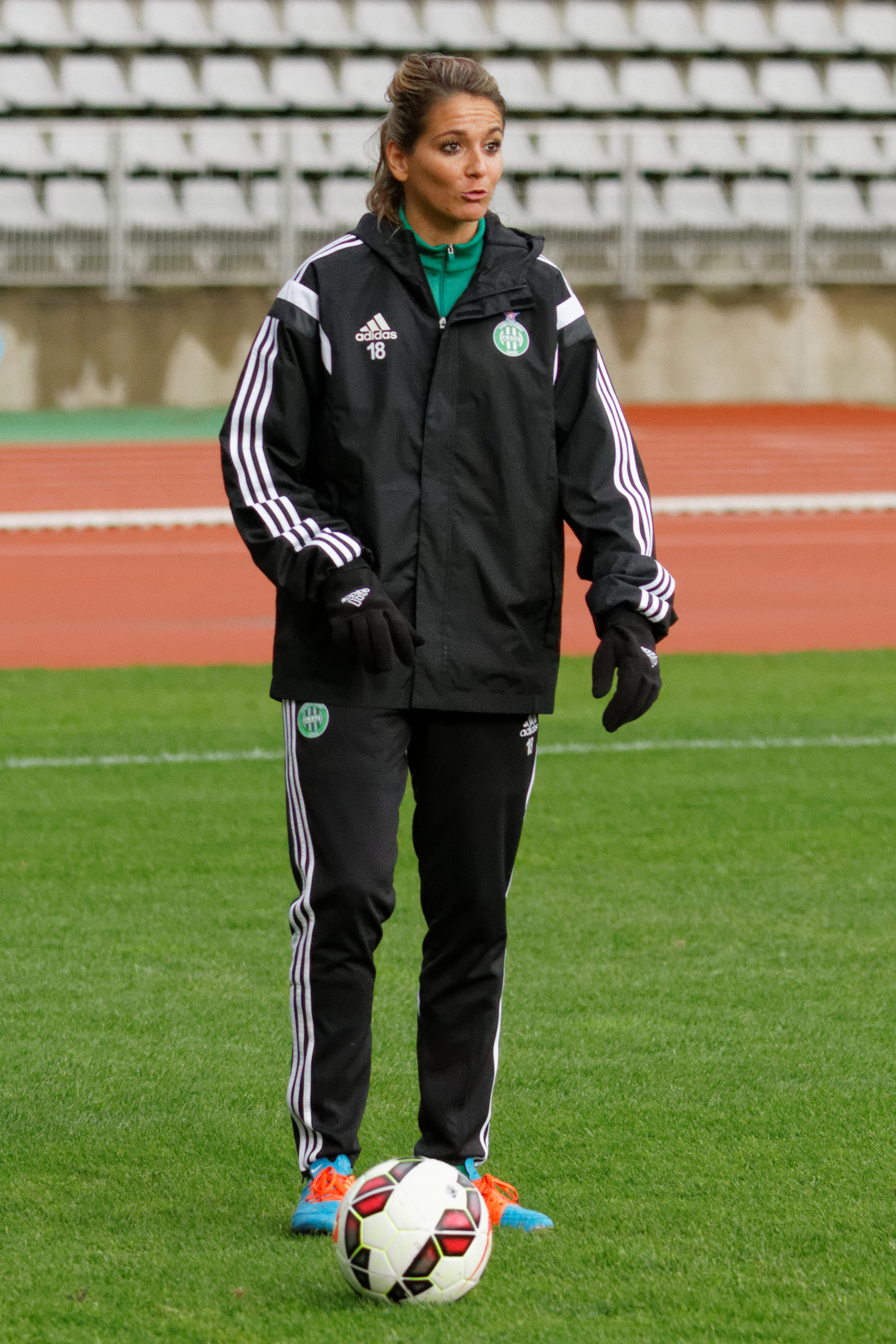 D1, PSG vs Saint-Étienne, 16 November 2014